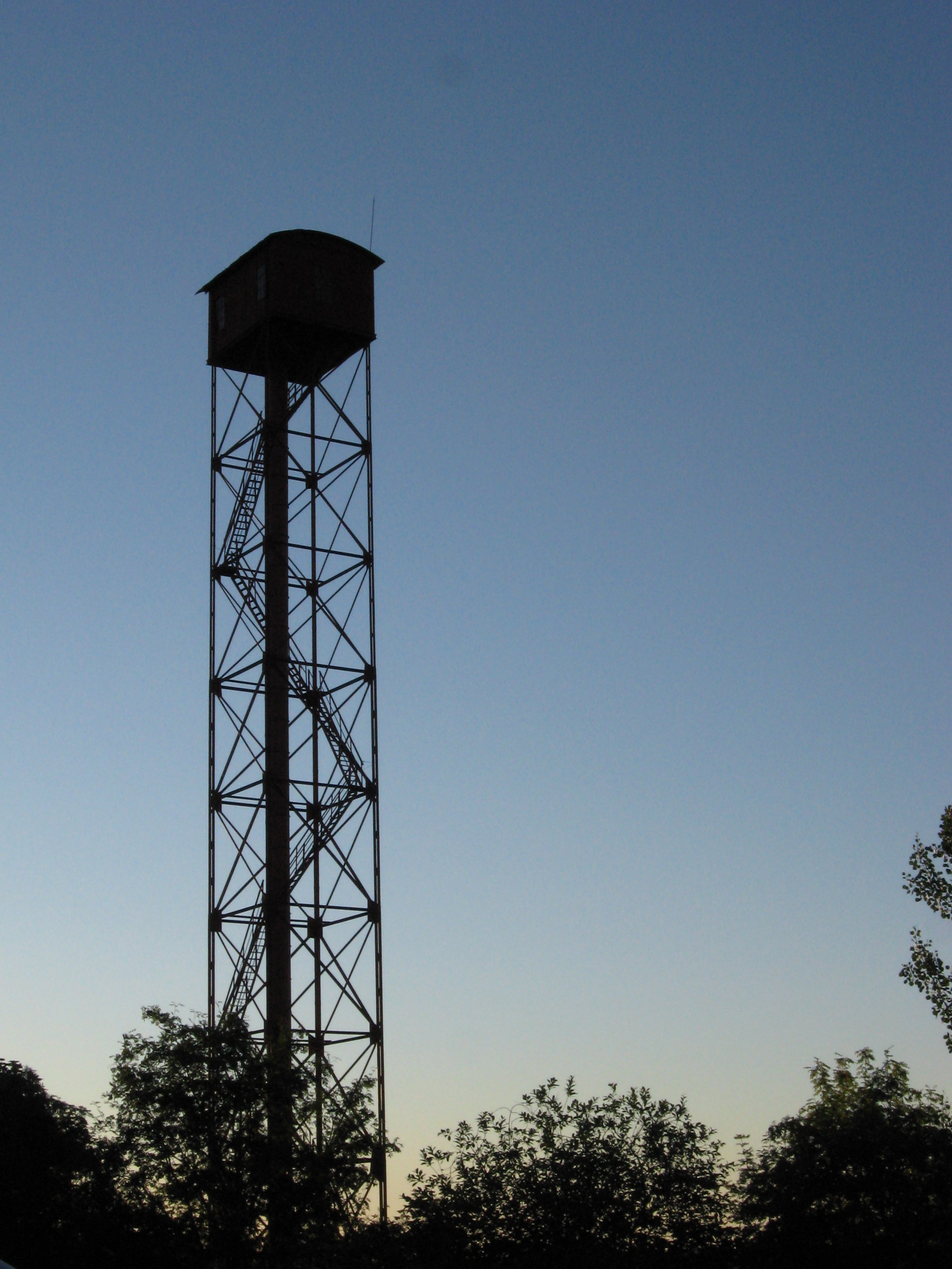 Former shotgun pellet tower silhouette at Pispala, Tampere, Finland.